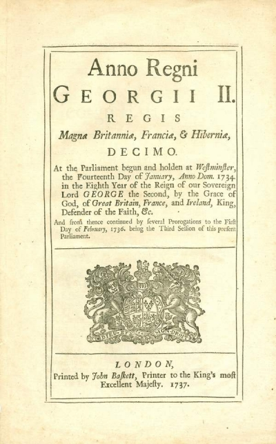 First page of the Licensing Act of 1737 that established the office of Examiner of Plays, printed by John Baskett (King’s Printer), 1737, 30.5 x 19.5 cm